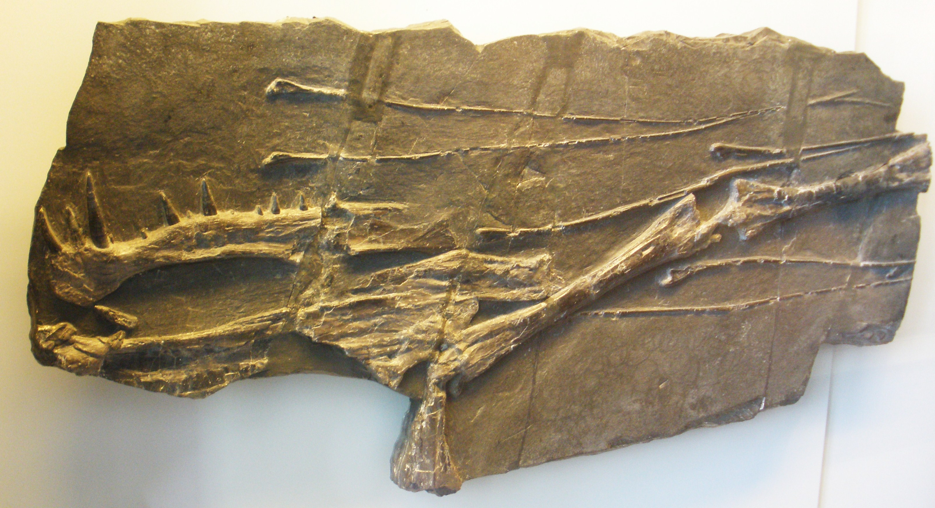 Slab of bituminous shale with a left dentary bone in lateral view and some associated cervical vertebrae and cervical ribs as well as some platy bone fragments either representing the internal (medial) portion of the jaw, parts of the palate or parts of the skull roof of Tanystropheus longobardicus from the Grenzbitumenzone (Middle Triassic) of Monte San Giorgio, Ticino, Switzerland, on display at the Paläontologisches Museum Zürich.